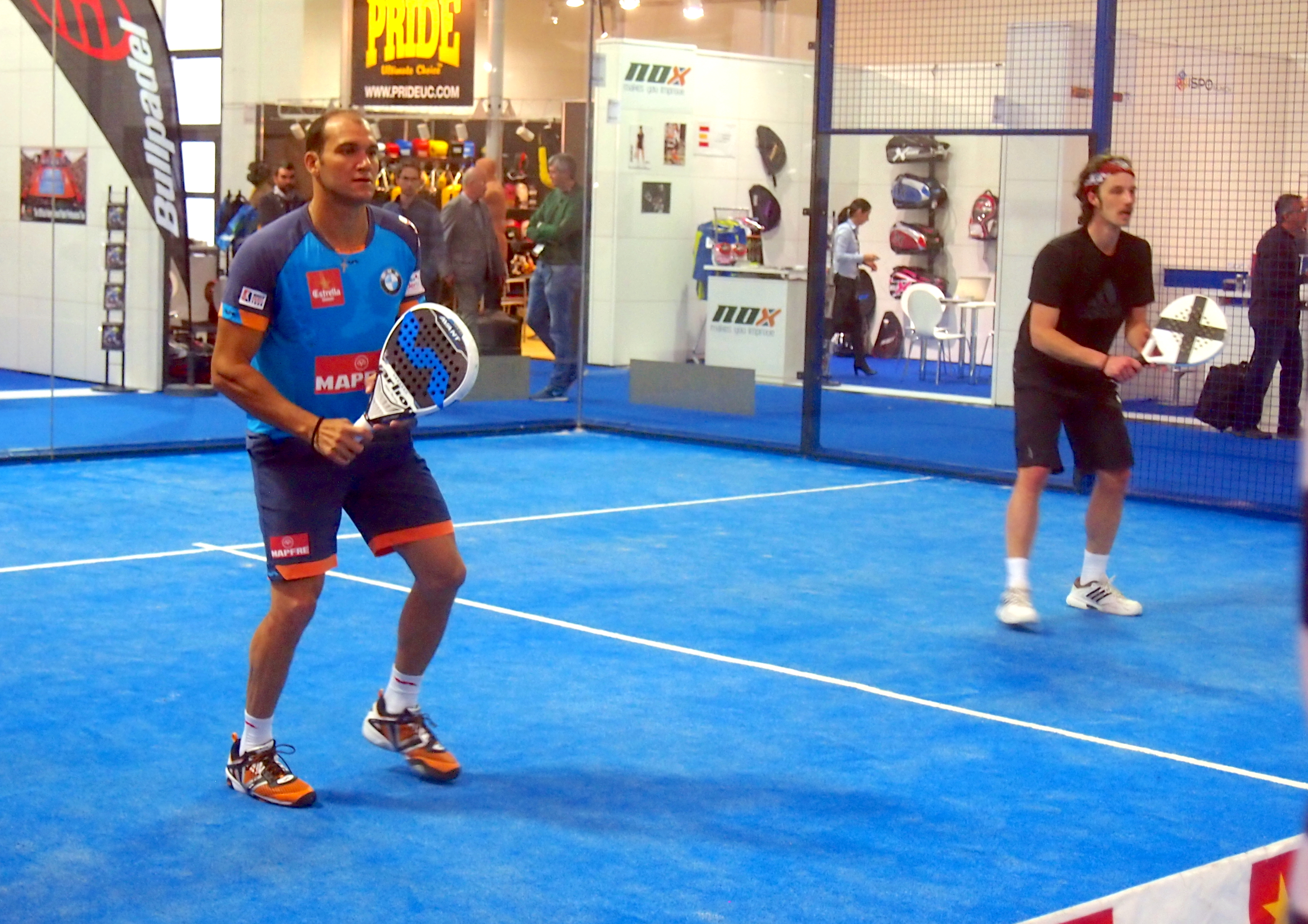 Padel Tennis Arena at ISPO sports-fair 2014 in Munich, Germany Personality rights warningAlthough this work is freely licensed or in the public domain, the person(s) shown may have rights that legally restrict certain re-uses unless those depicted consent to such uses. In these cases, a model release or other evidence of consent could protect you from infringement claims.